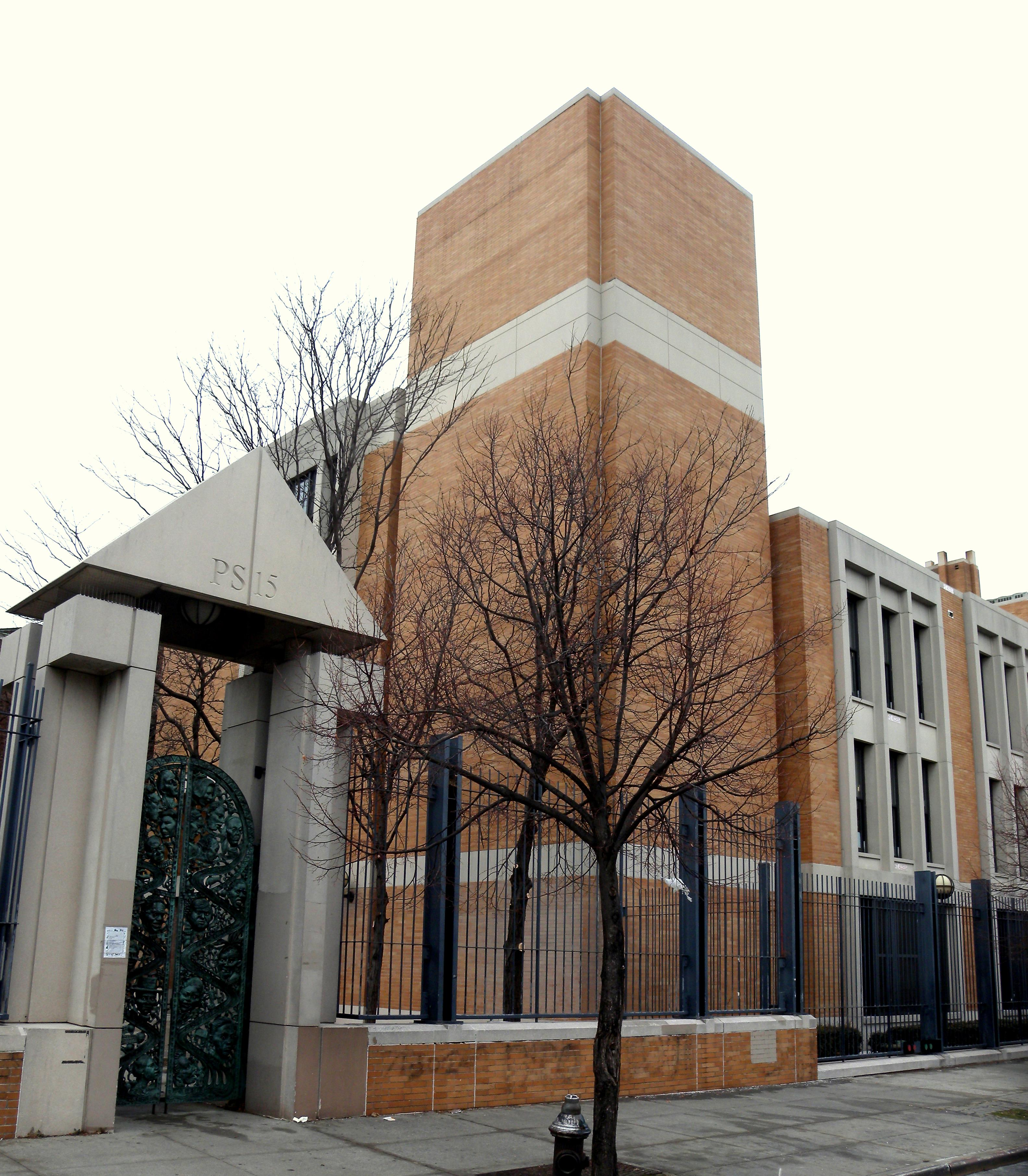 Looking northwest at PS 15 on a cloudy afternoon.